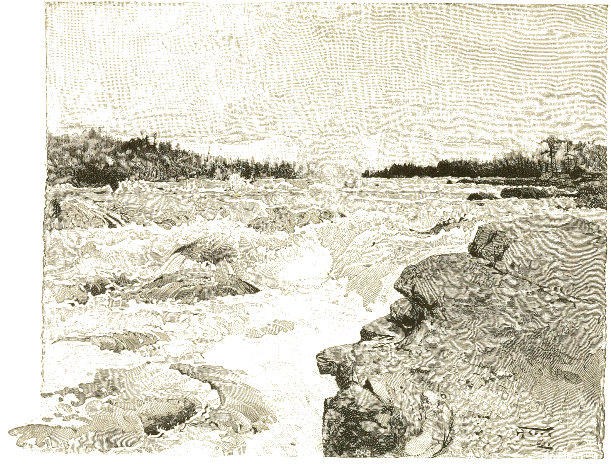 Caption: Rapids above the Grand Falls. (From a photograph taken 250 feet above the brink.)